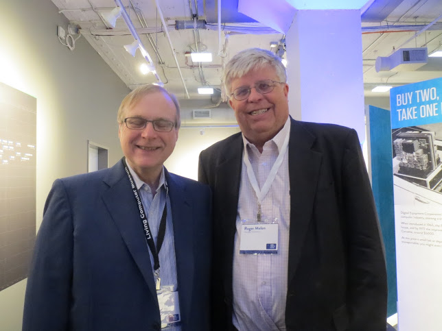 A scene from Paul Allen's reunion for the Home Brew Club members.